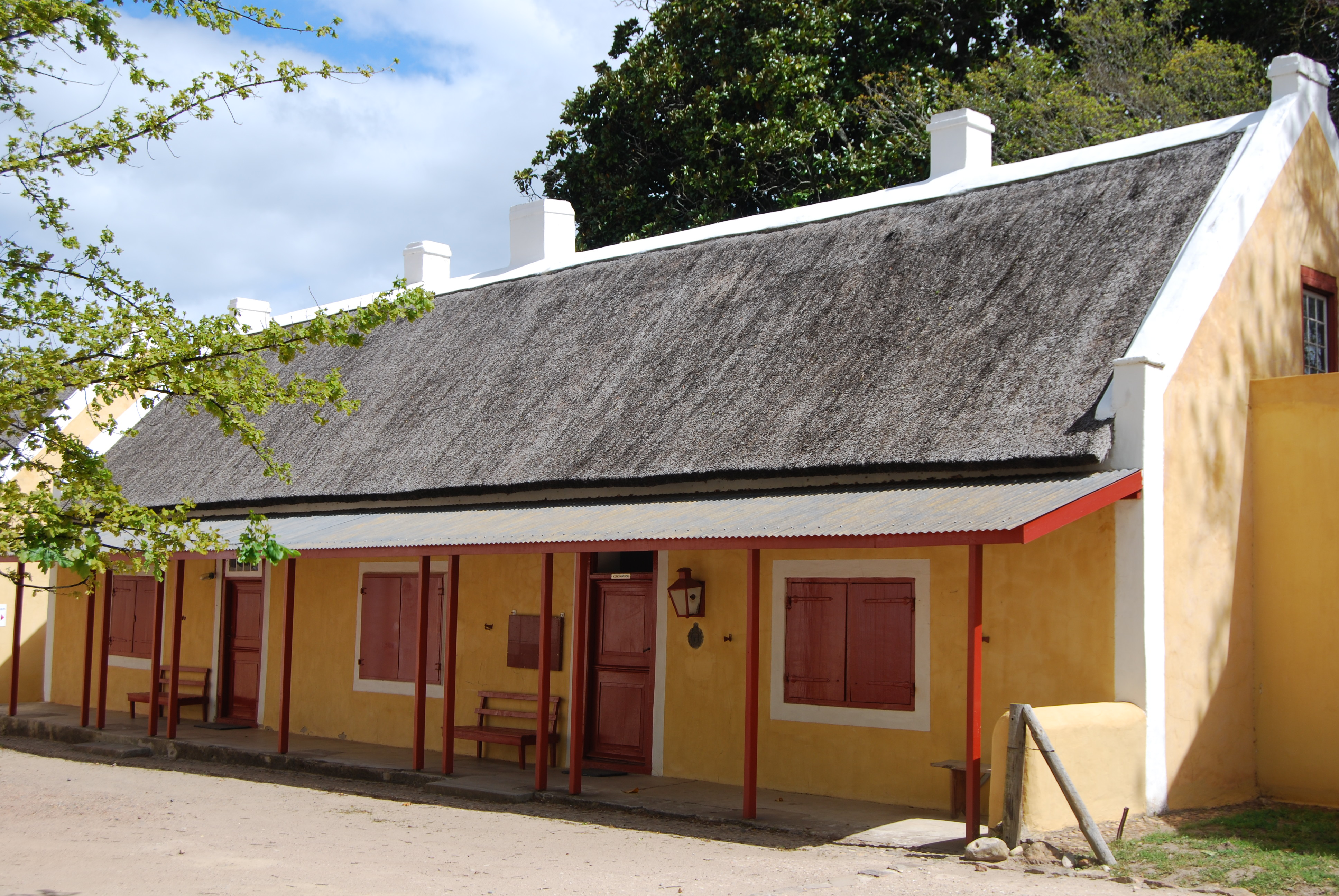 Church office at Genadendal Mission This media shows a South African Protected Site with SAHRA file reference 9/2/015/0010.